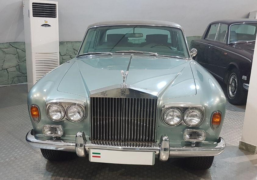 Rolls-Royce Corniche in Sa'dabad Complex's Royal Car Museum